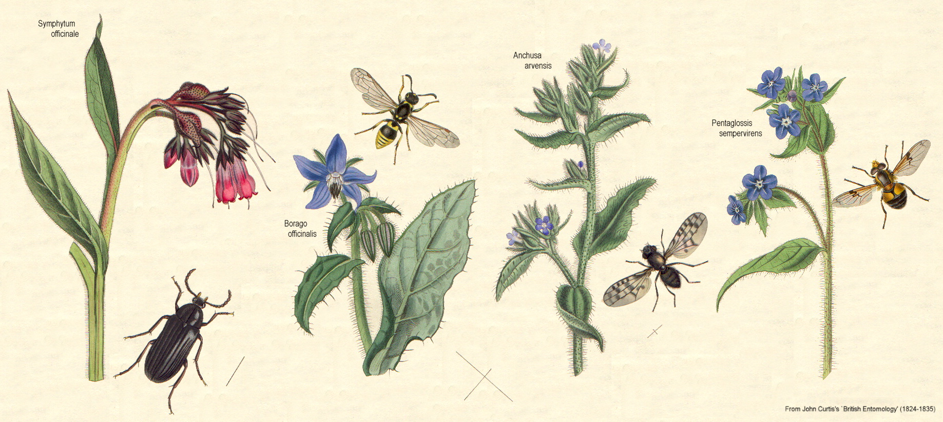 Plate of Boraginaceae